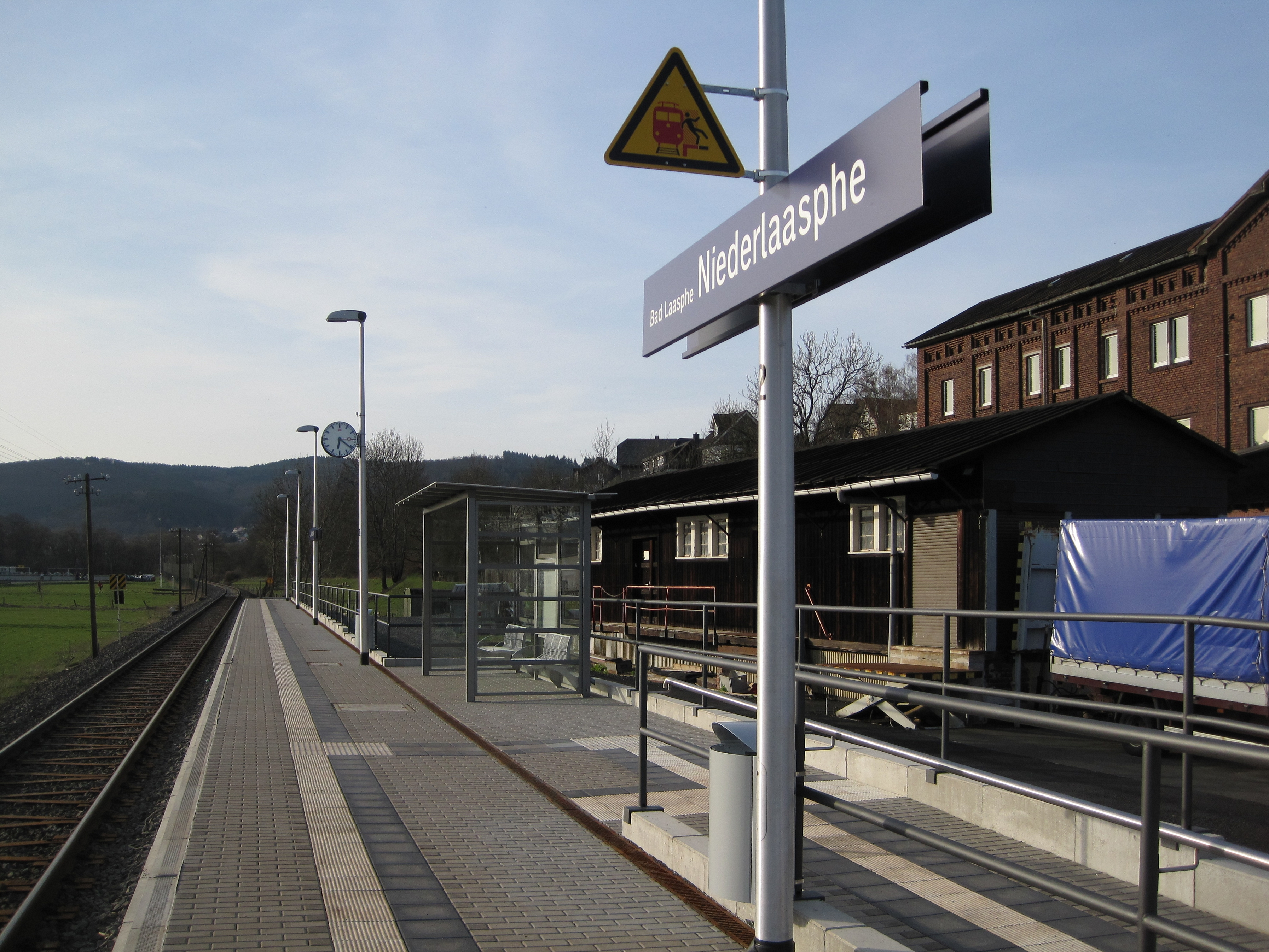 Bad Laasphe-Niederlaasphe station, Bad Laasphe, Germany check usage